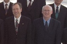 Irwin Cotler and Paul Kennedy, Canada members of the G8 Justice and Home Affairs Ministers meeting, pose for photos in Washington, D.C. on May 11, 2004.